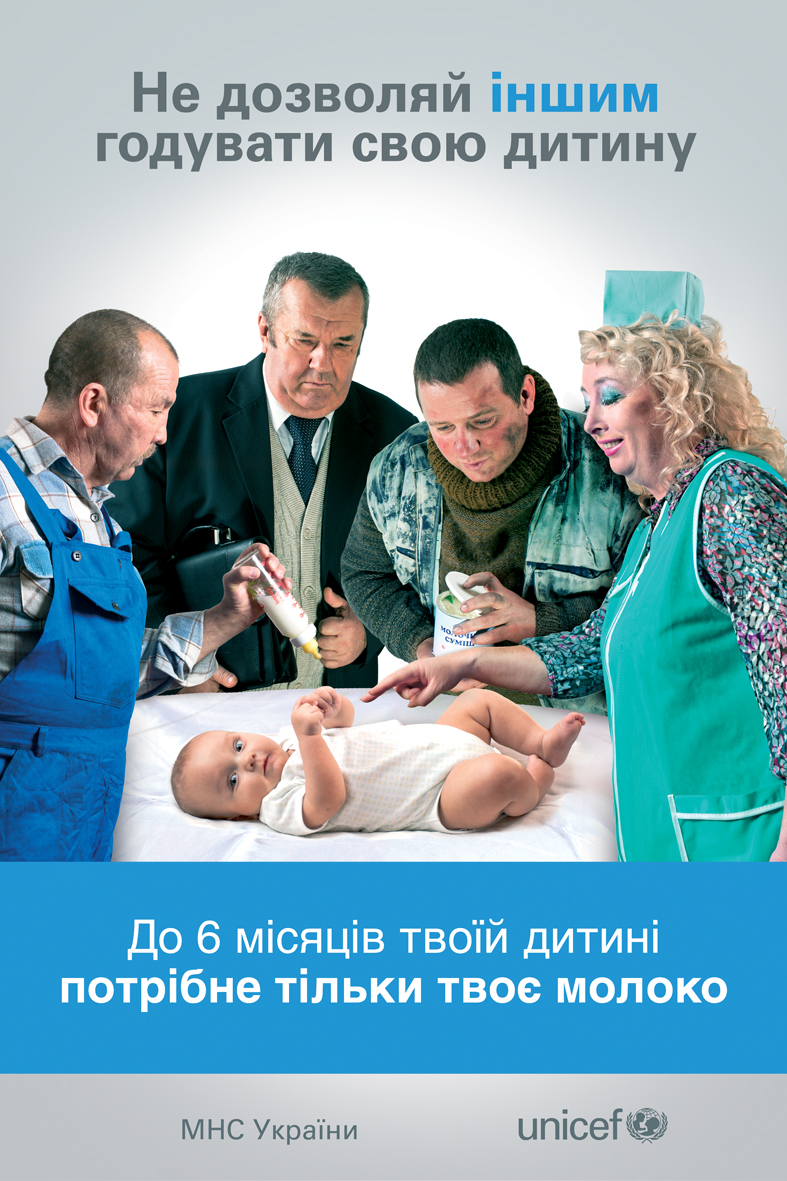 Responsible parenthood